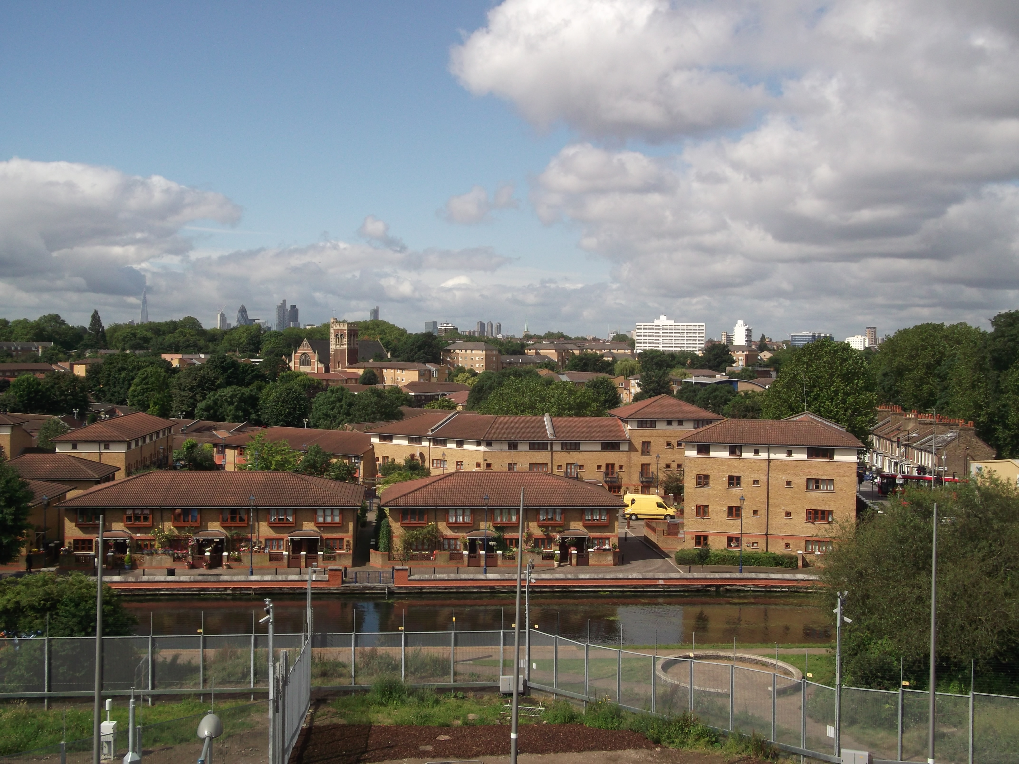 Housing in Hackney Wick. Foreground from left to right: Silk Mills Square; Moat House and Meadow Close. In the distance the skyscrapers in the City of London can be seen, in front of which the tower and gable wall of the church (distinctive red and yellow) belong to St Mary's of Eton, Hackney Wick which won the RIBA architecture award, 2015.